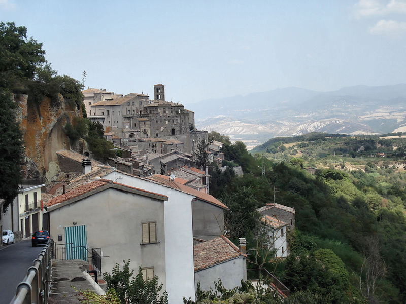 Bomarzo, Italy, view from west